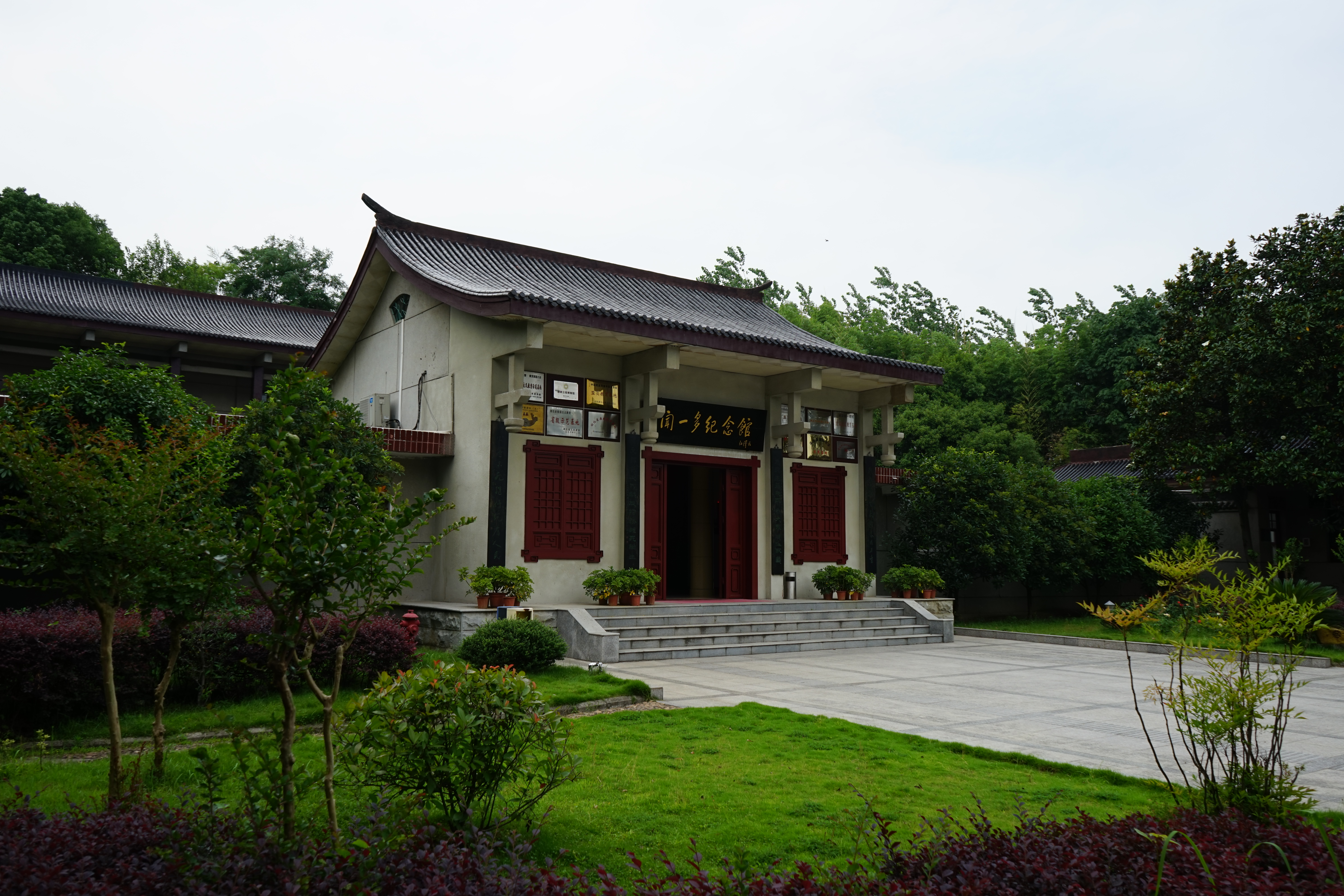 Wen Yiduo Memorial Hall